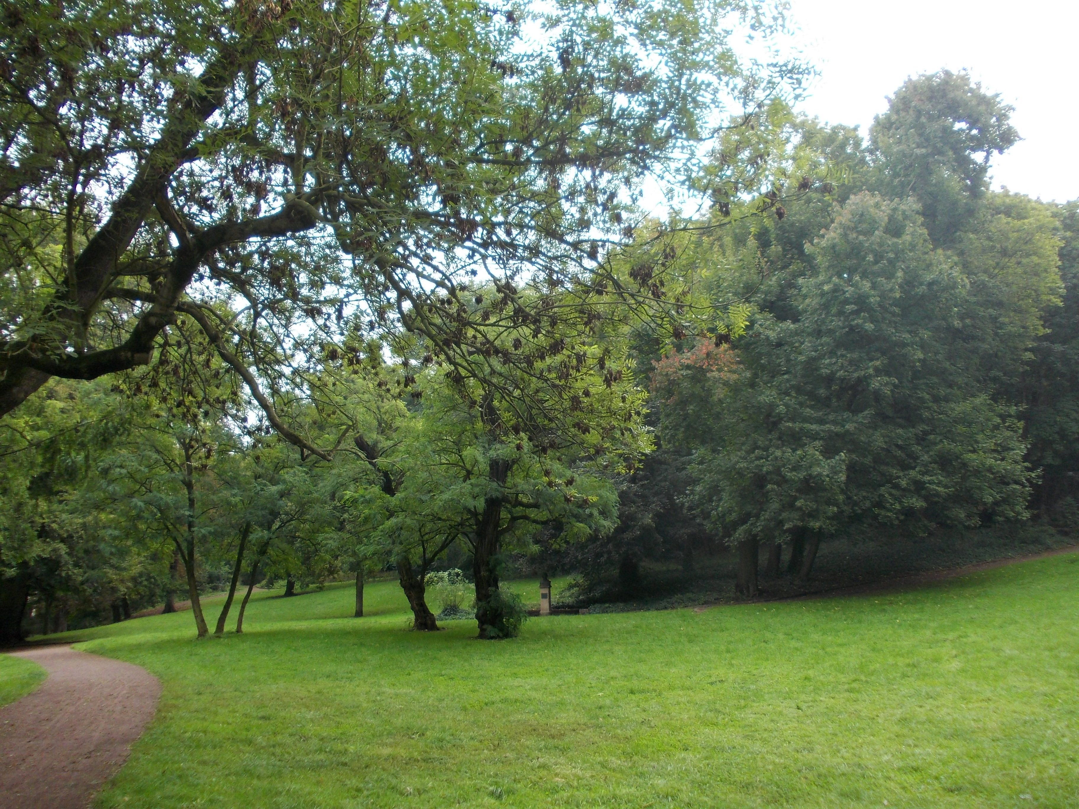 Reichardt's Garden in Halle/Saale (Saxony-Anhalt)